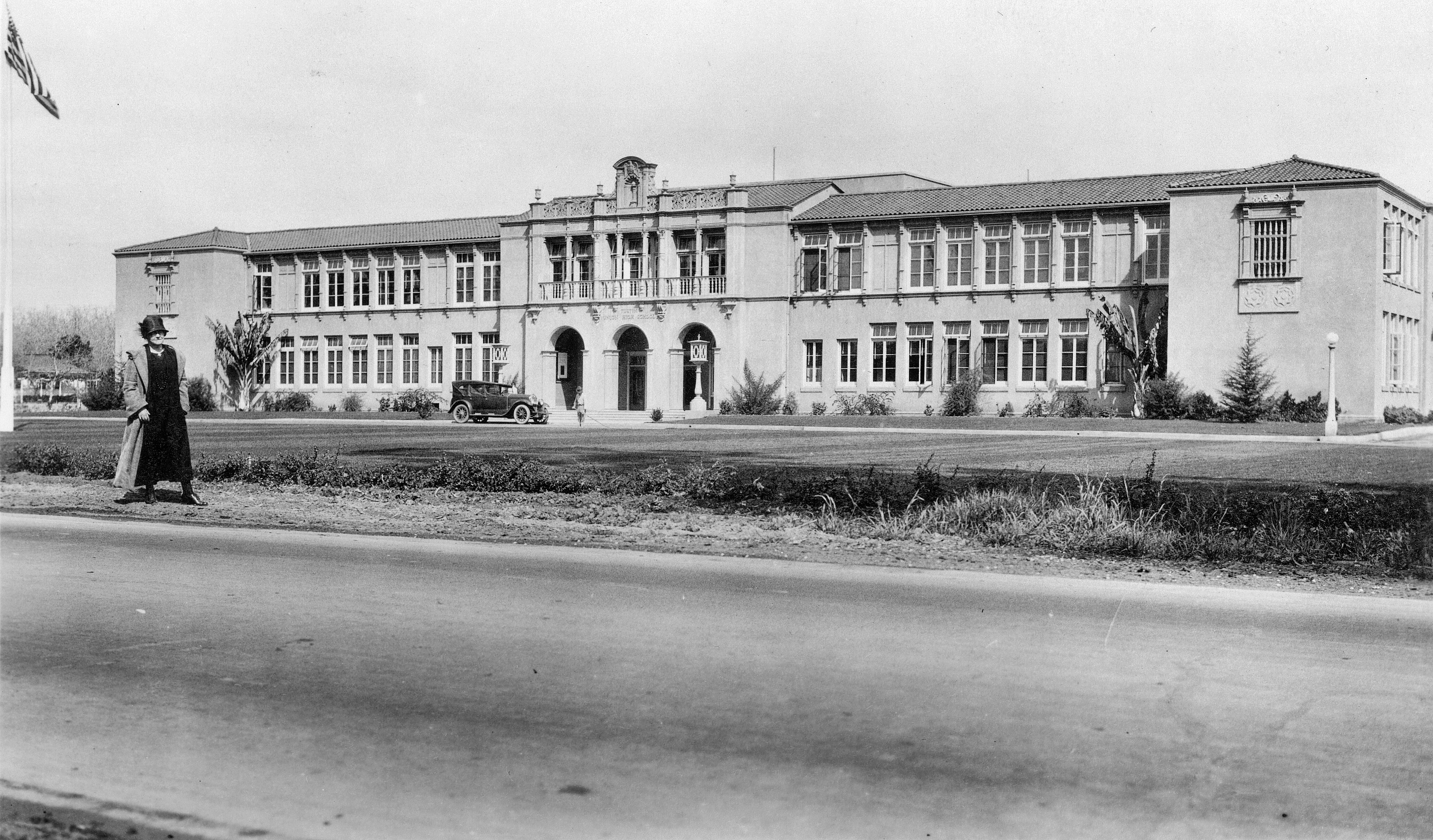 There are no known copyright restrictions on this image. All future uses of this photo should include the courtesy line, "Photo courtesy Orange County Archives." From the Tom Pulley Collection. Comments are welcome after reading our Comment Policy.